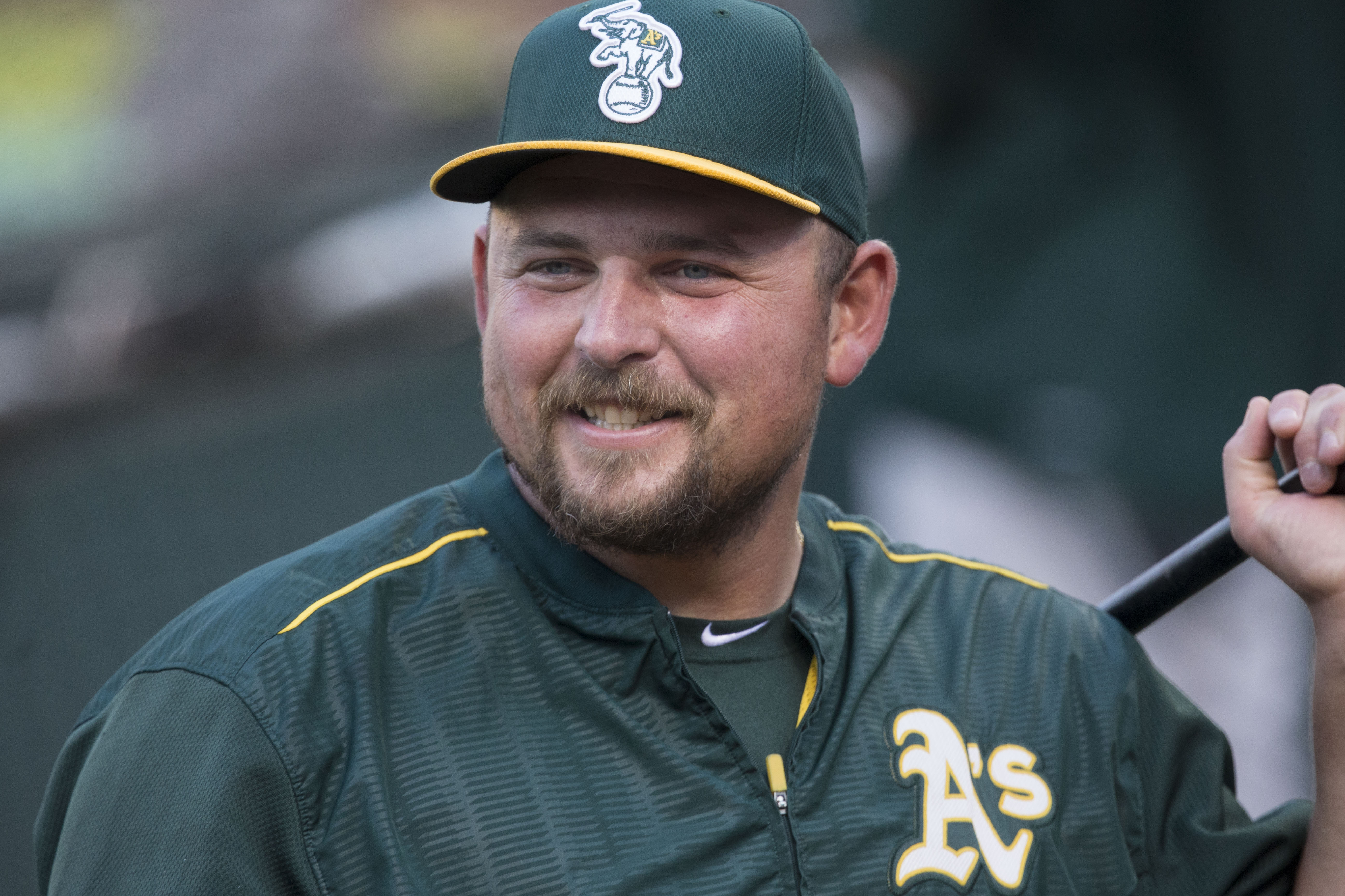 Athletics at Orioles 8/14/15